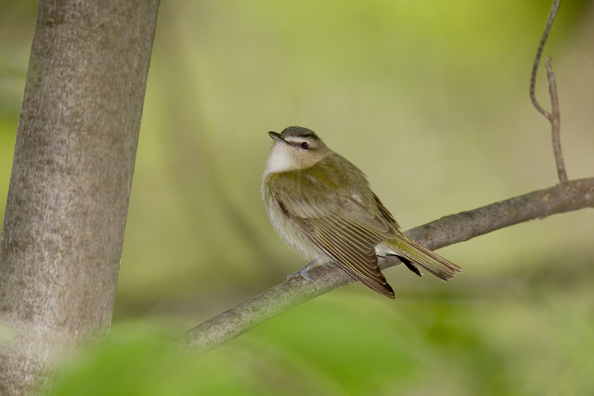 Red-eyed vireo